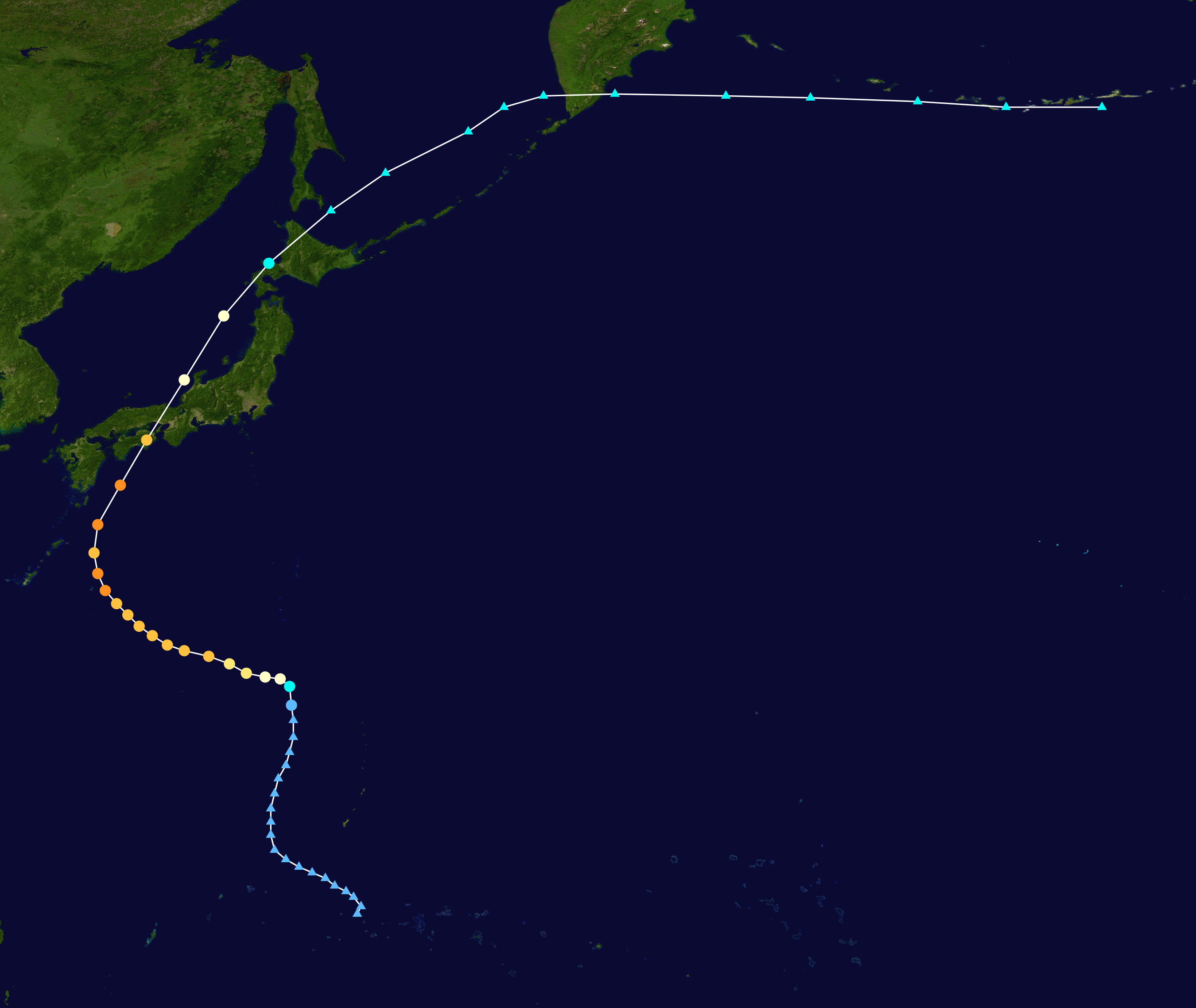 Track map of Typhoon Shirley of the 1965 Pacific typhoon season. The points show the location of the storm at 6-hour intervals. The colour represents the storm's maximum sustained wind speeds as classified in the Saffir-Simpson Hurricane Scale (see below), and the shape of the data points represent the nature of the storm, according to the legend below. Saffir–Simpson hurricane wind scale Tropical depression≤38 mph≤62 km/h Category 3111–129 mph178–208 km/h Tropical storm39–73 mph63–118 km/h Category 4130–156 mph209–251 km/h Category 174–95 mph119–153 km/h Category 5≥157 mph≥252 km/h Category 296–110 mph154–177 km/h Unknown Storm typeTropical cycloneSubtropical cycloneExtratropical cyclone / Remnant low / Tropical disturbance